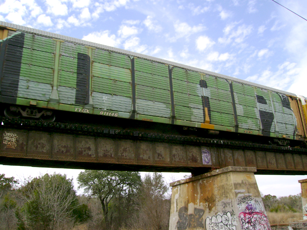 Autorack wholecar by Diar